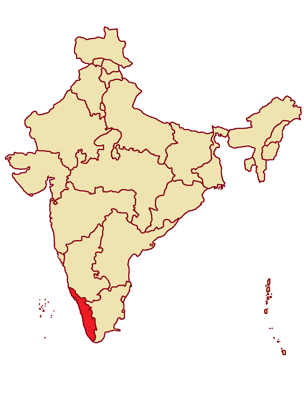 States and Union Territories of India, as of 1964-1965, i.e. between the creation of the state of Nagaland in 1963 and the Punjab Reorganization Act, 1966. Map does not include territories claimed by India but controlled by other countries. Borders not necessarily to scale. Based on File:States_of_India_(1964).png